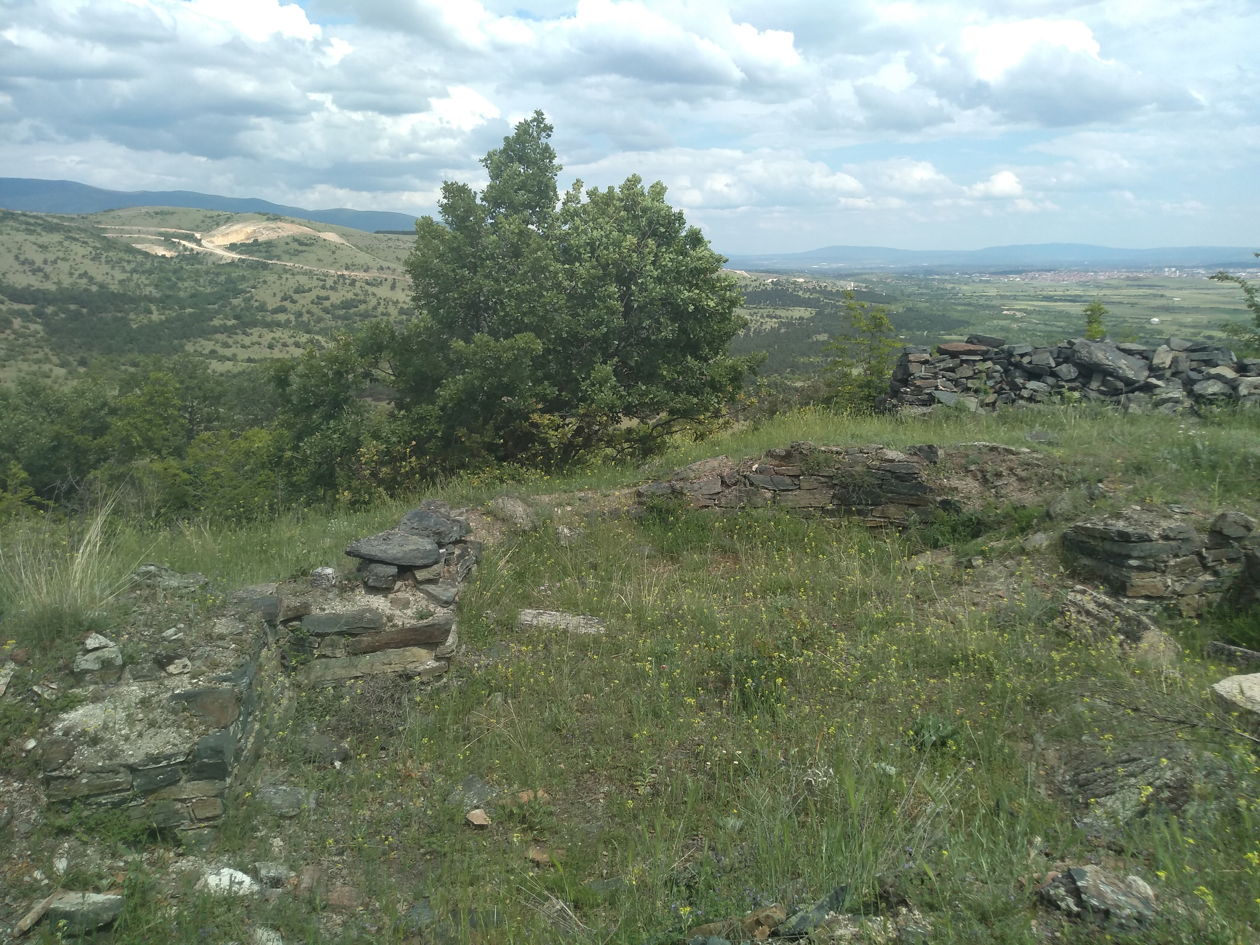 Davina Kula archaeological site, near Skopje, Macedonia